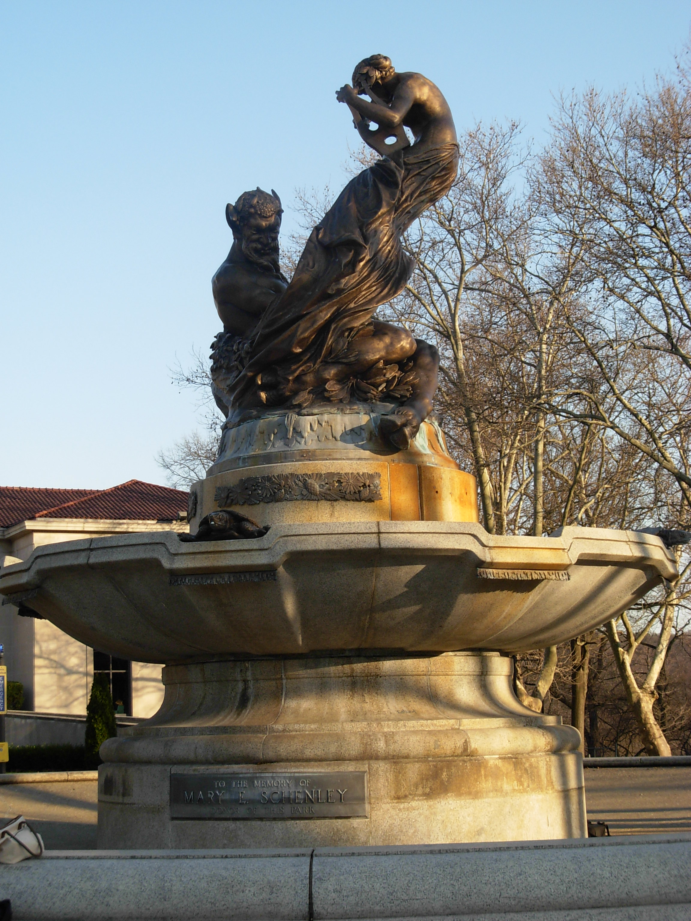 a fountain dedicated to the memory of Mary Croghan Schenley in front of Frick Fine Arts Building, Pittburgh. FFA Building, opposite of Carneige library, is the last building before the Schenley Park. Sculptor: Victor David Brenner (1877-1924).